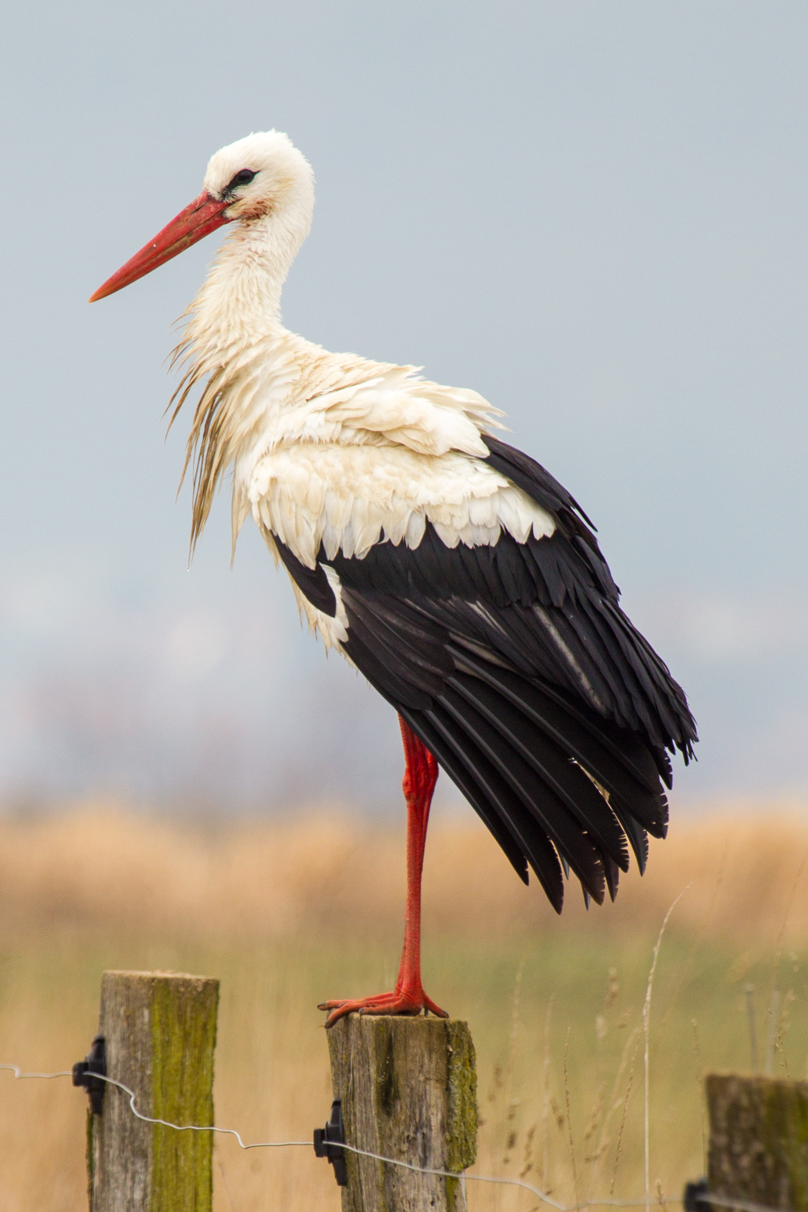 White Stork